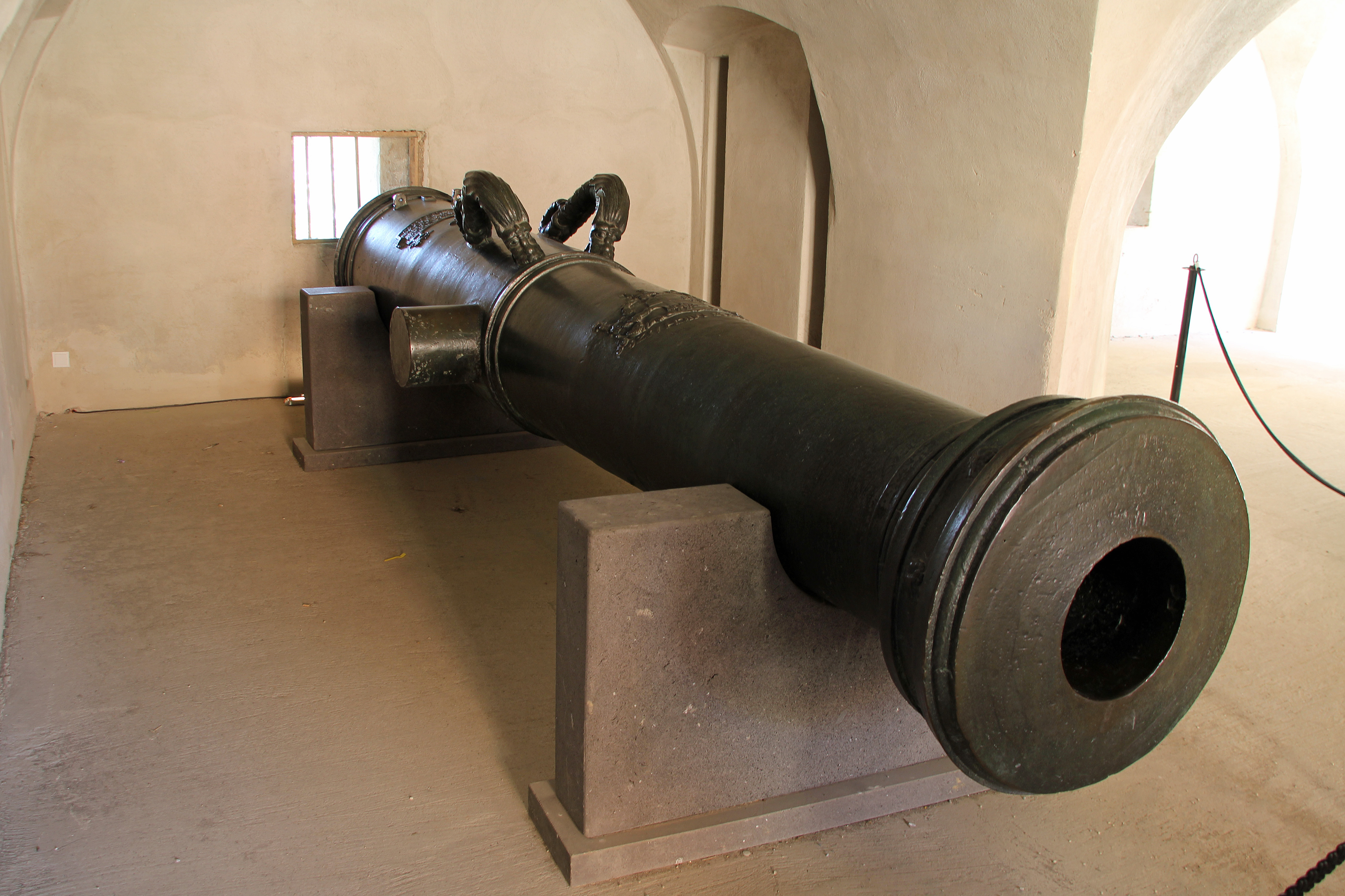 Federal Horticultural Show 2011 in Koblenz - Ehrenbreitstein Fortress